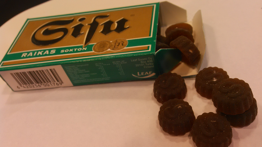 Sisu pastilles and the package made by Cloetta